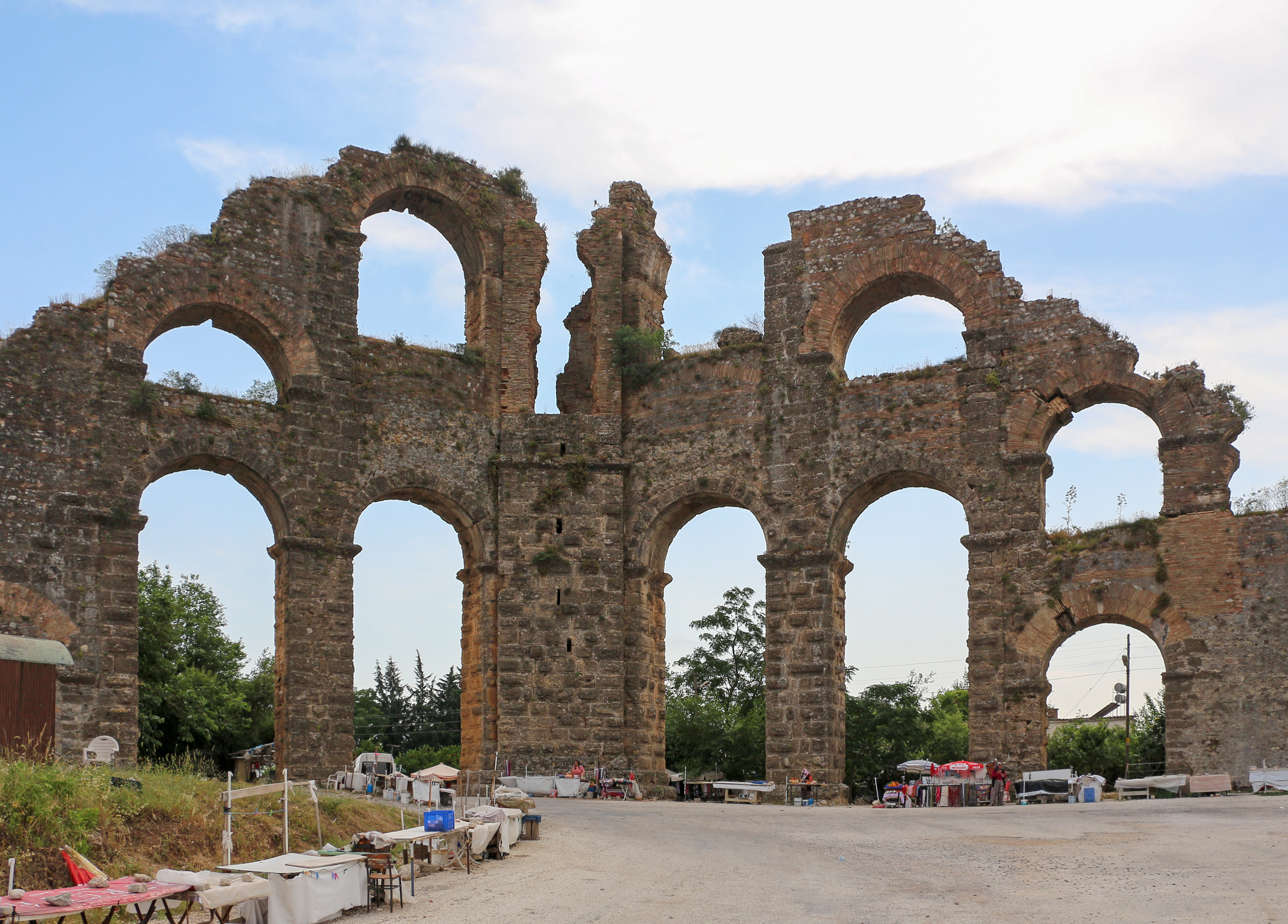 Roman aqueduct of Aspendos, Turkey